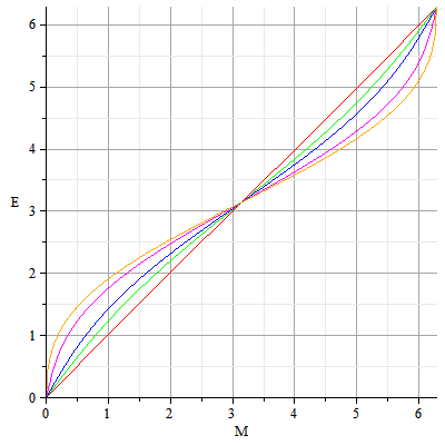 Kepler's equation solutions, computed numerically for five examples (e is eccentricity): the Earth (e=0.0167) — red line Pluto (e=0.249) — green line Comet Holmes (e=0.432) — blue line 28P/Neujmin (e=0.775) — magenta line Halley's Comet (e=0.967) — orange line